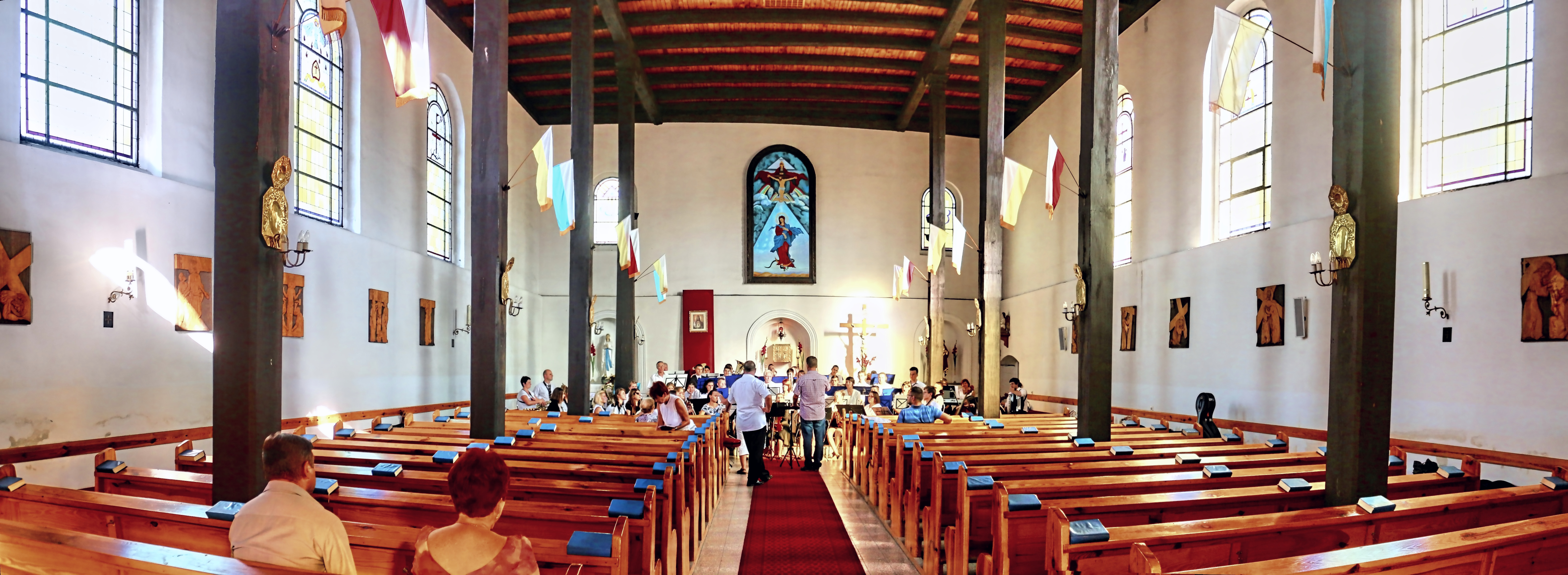 Interior of the Trinity church in Wschowa